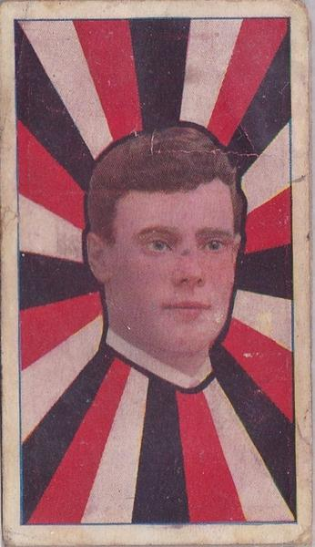 Cigarette card of Artie Thomas from the 1911 Sniders & Abrahams series.